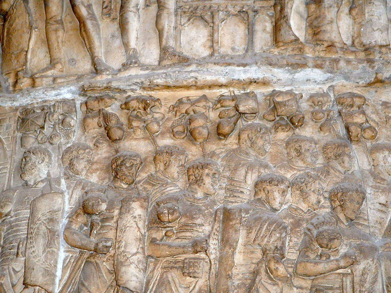 Roman soldiers with marching packs. From the cast of Trajan's column in the Victoria and Albert museum, London. Gaius Cornelius 17:04, 2 September 2005 (UTC) Alternative view - context Alternative view - detail Alternative view - detail